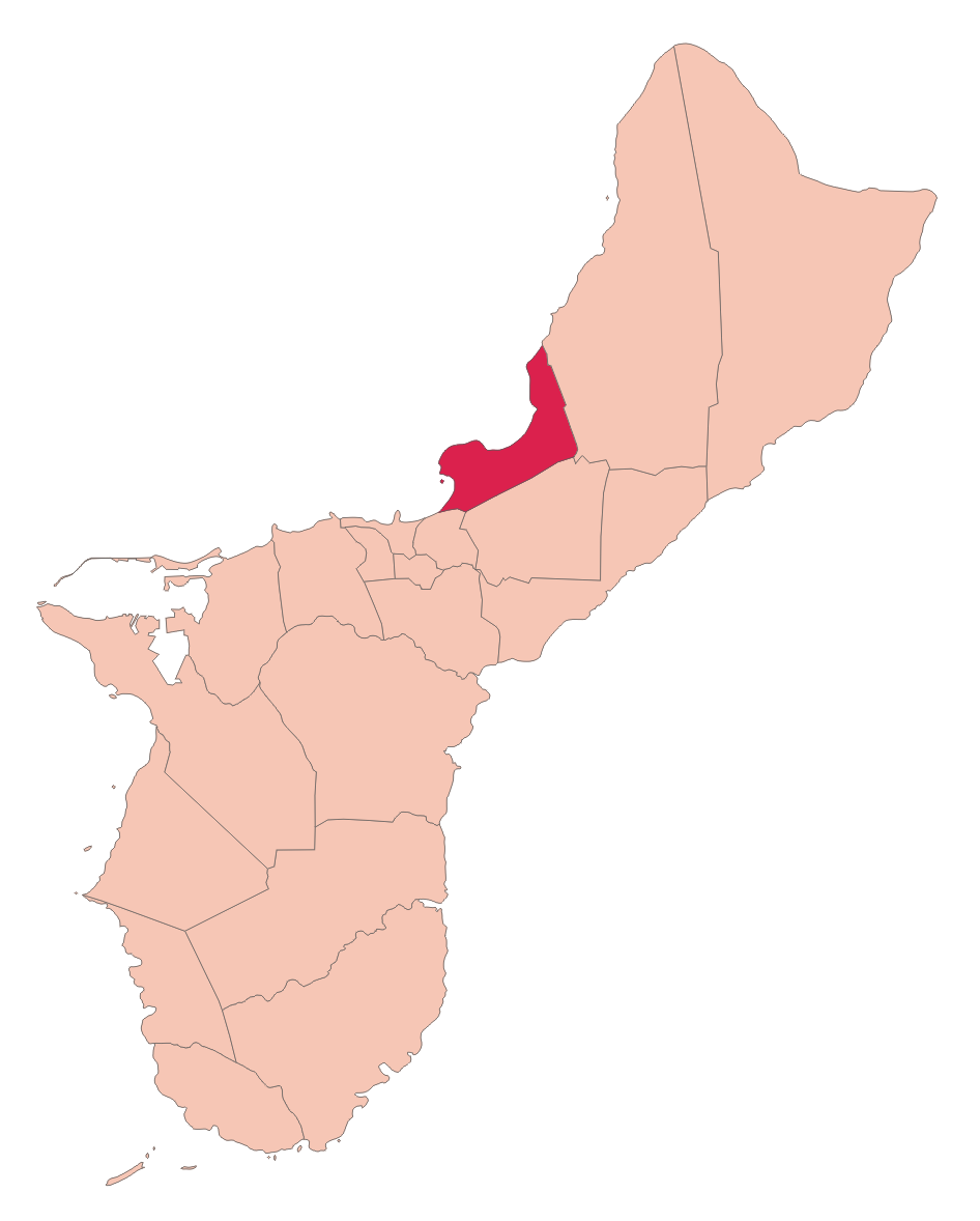 Municipalities of Guam: TamuningChamoru: Tamuneng (Guåhån).